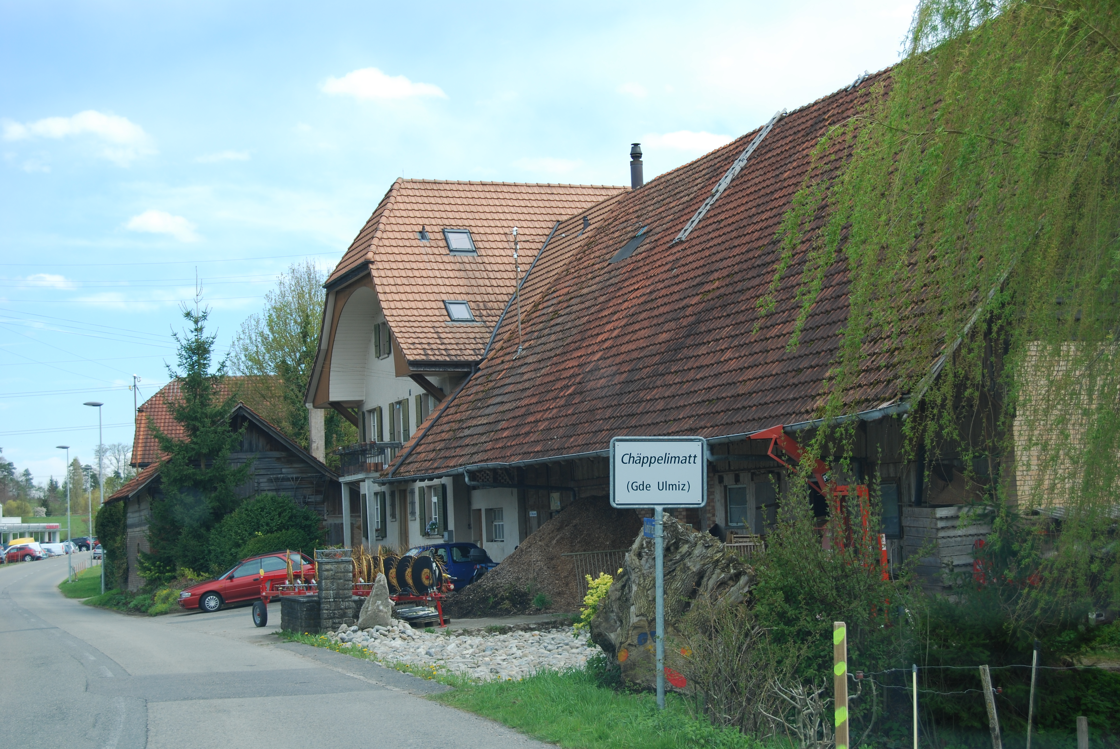 Chäppelimatt, municipality Ulmiz, canton of Fribourg, Switzerland